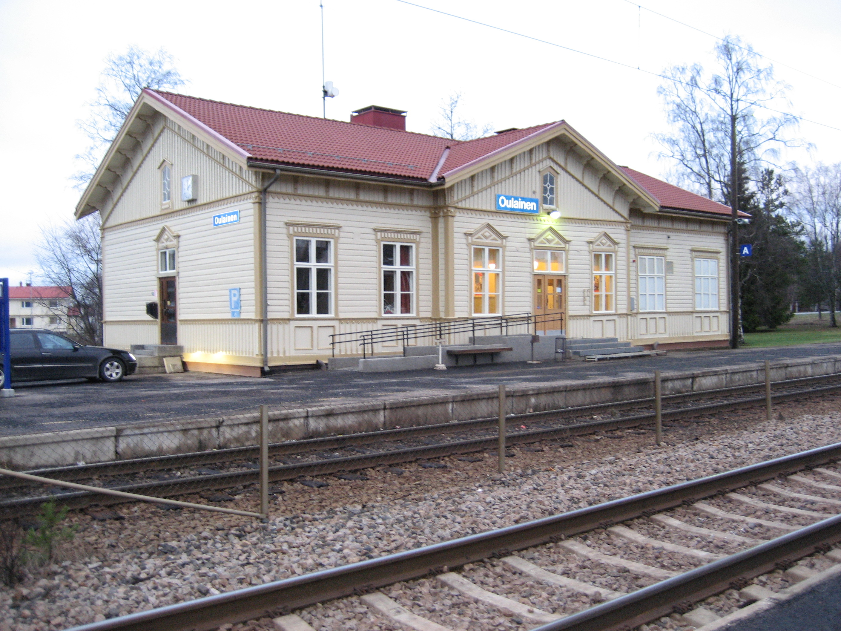 Oulainen railway station in Finland